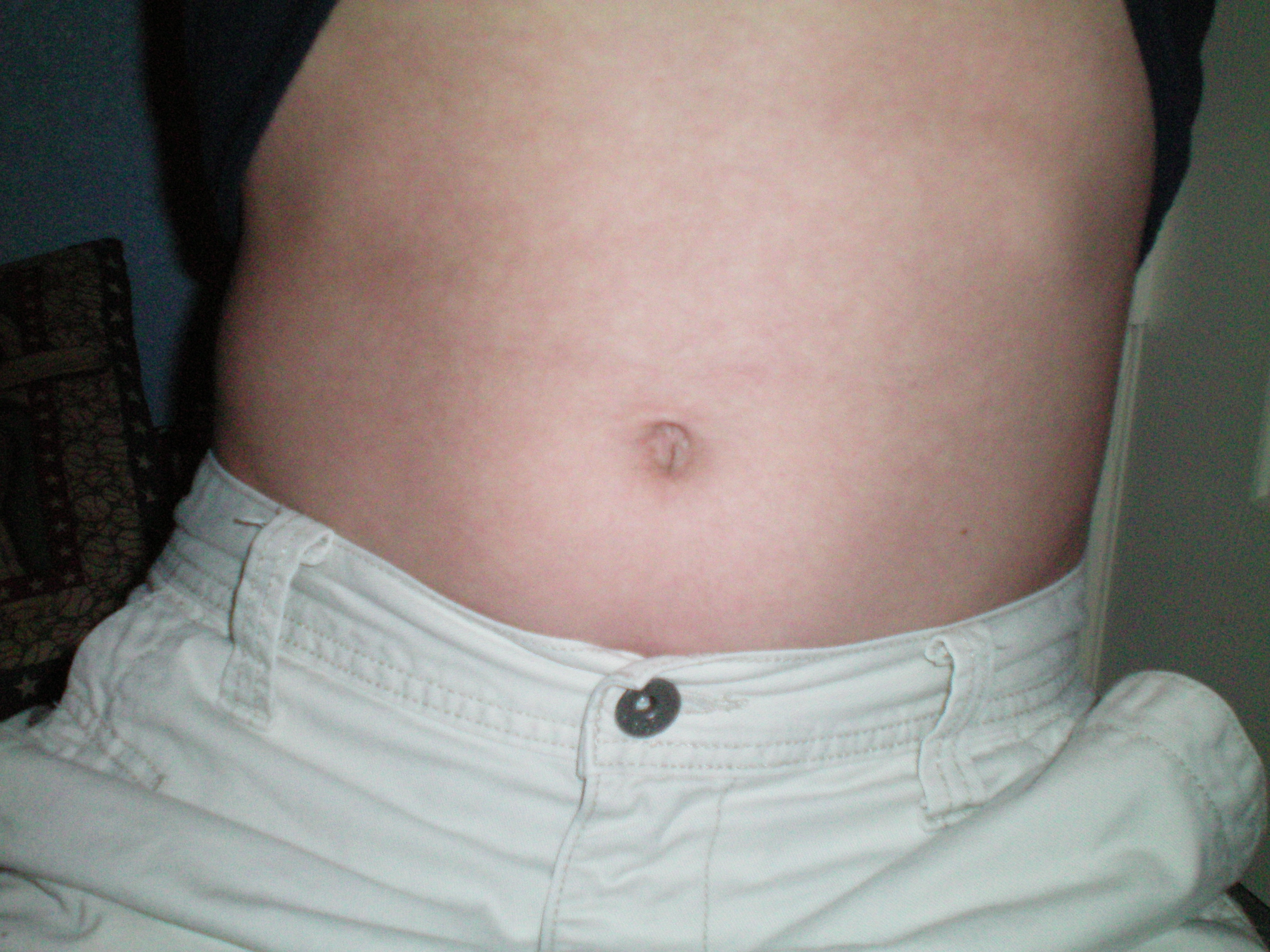 belly button